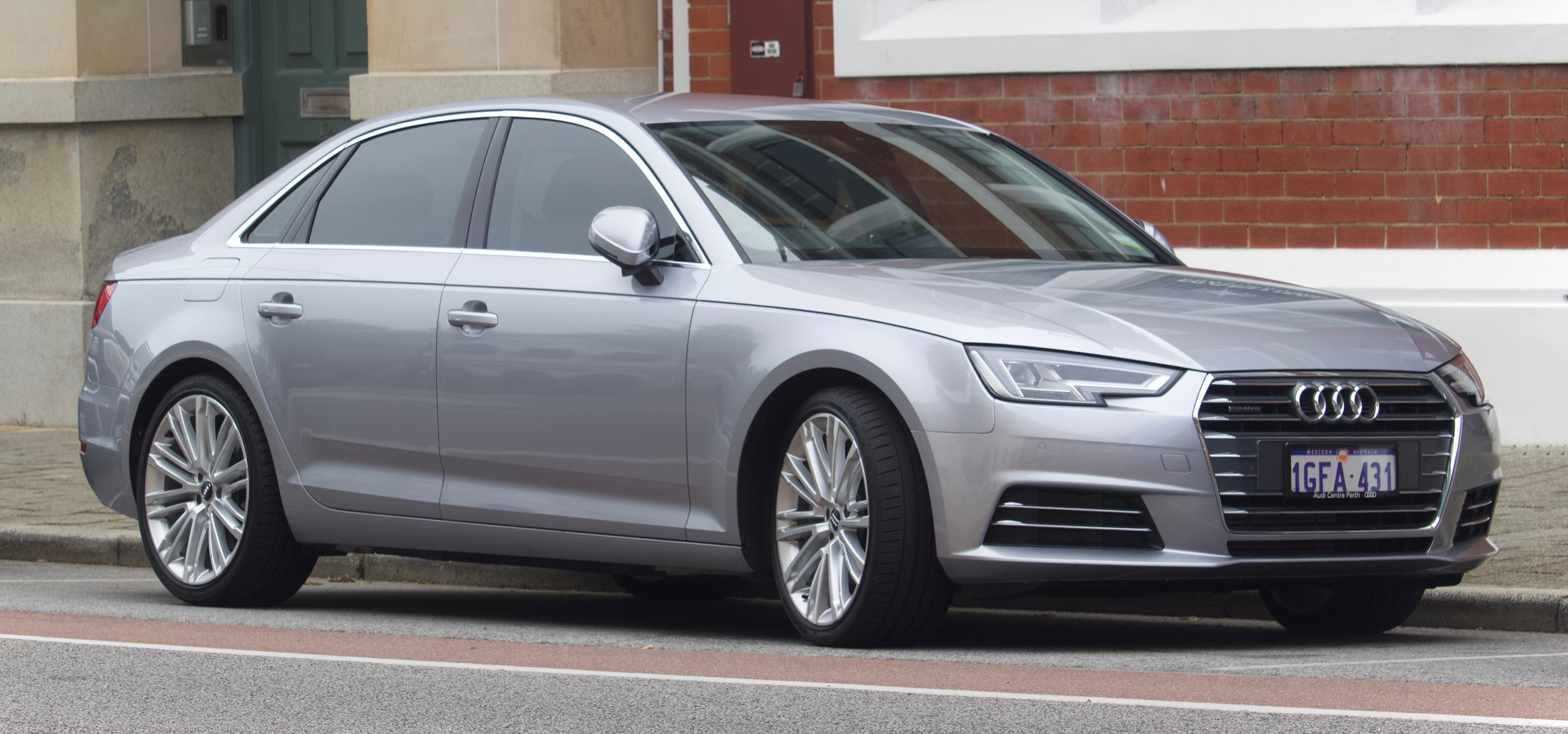 2017 Audi A4 (8W) sport quattro sedan. Photographed in Fremantle, Western Australia, Australia.